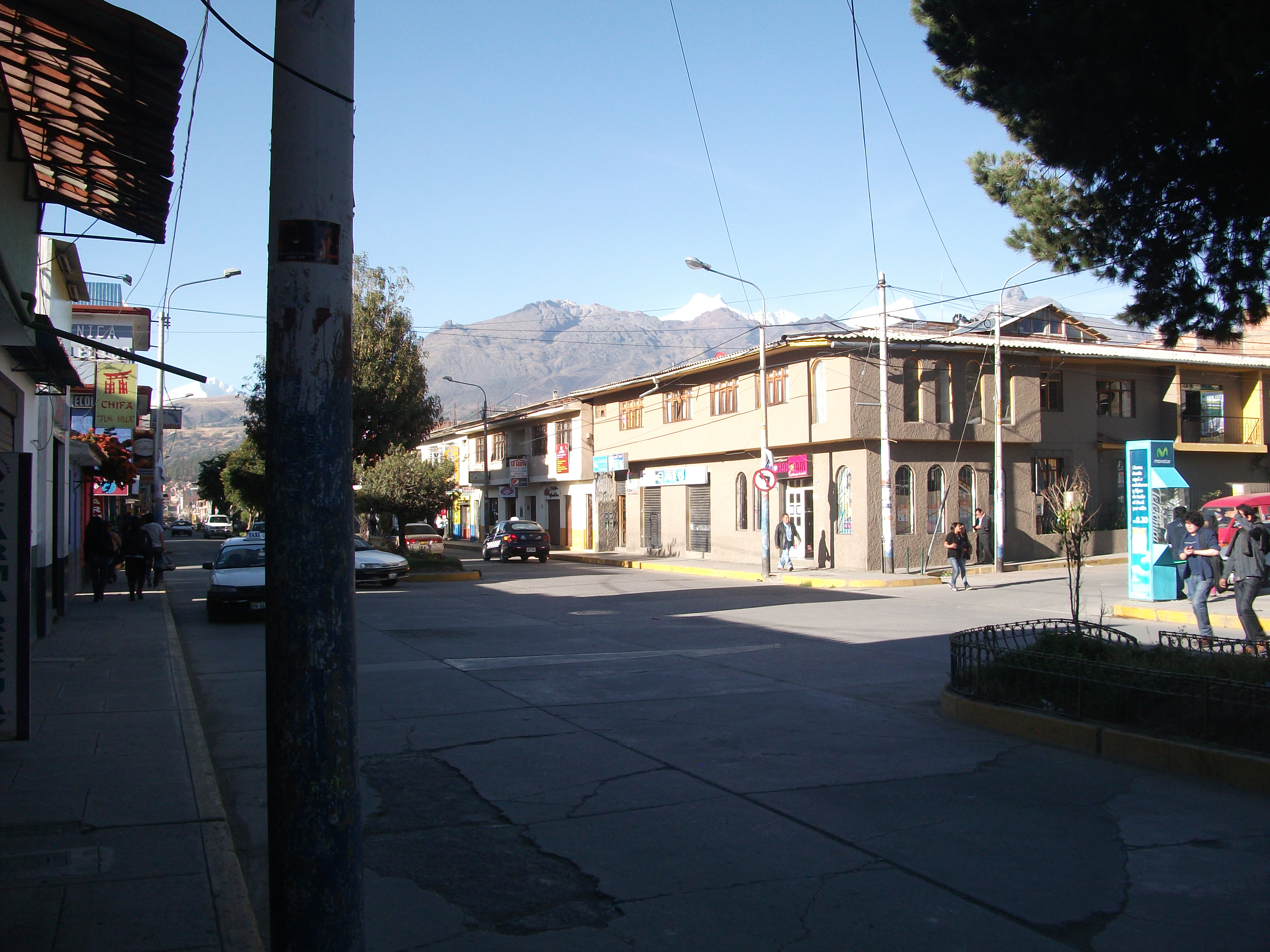 Avenida Luzuriaga, the main avenue in Huaraz, a commercial and residential street.